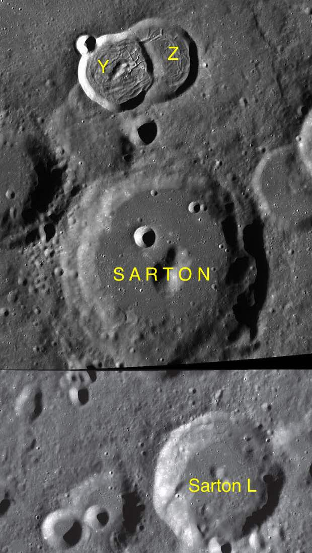 Parts of the charts LAC-20, LAC-35 used for the presentation